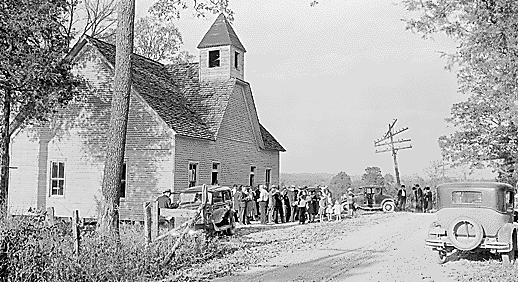 Sharps Station Methodist Episcopal Church in Loyston, Tennessee, USA, photographed in the 1930s before Loyston was submerged by Norris Lake.